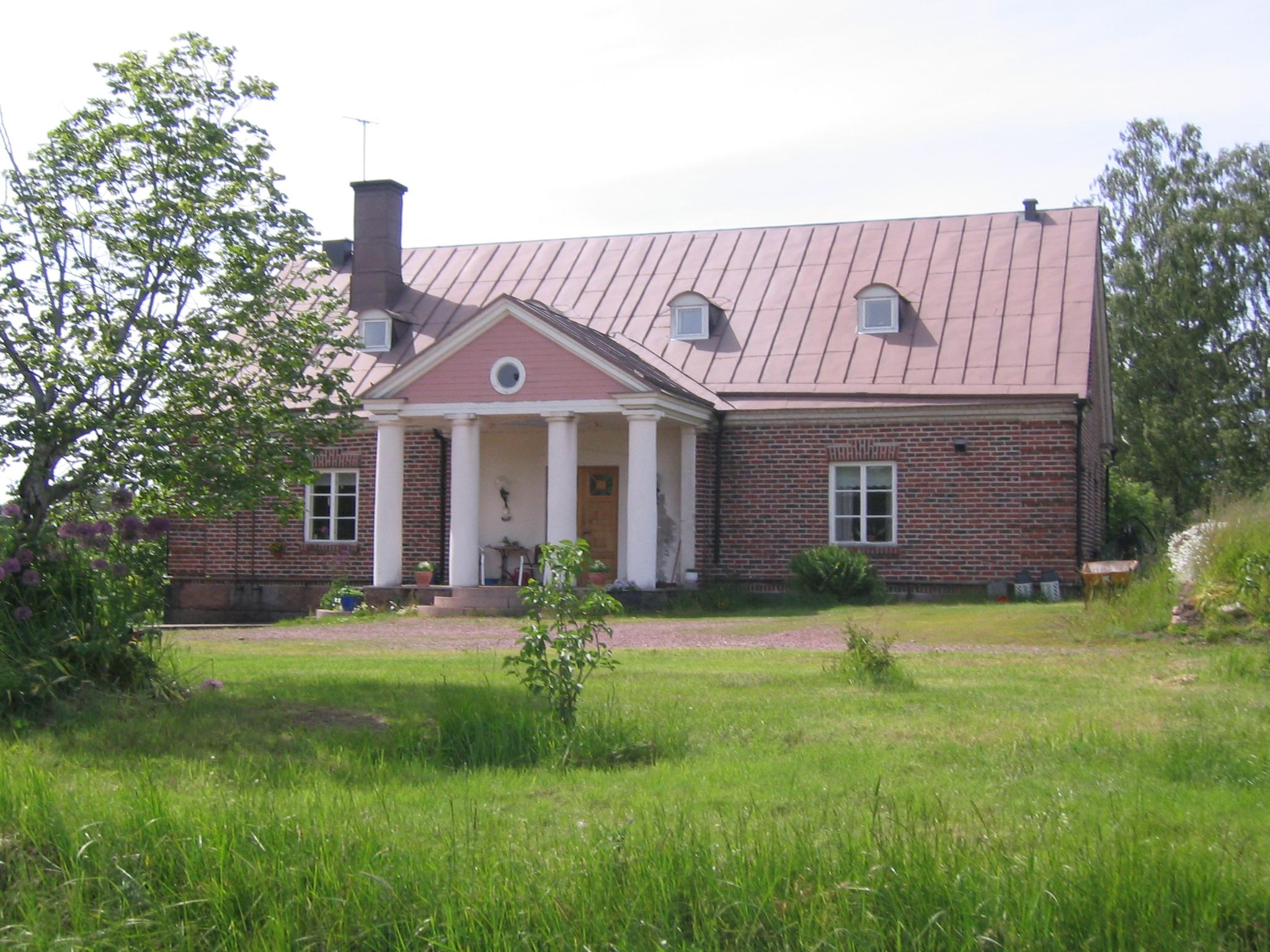 A house by architect Lars Sonck in the village of Ragetsbole, municipality of Finström on the Åland Islands, Finland.